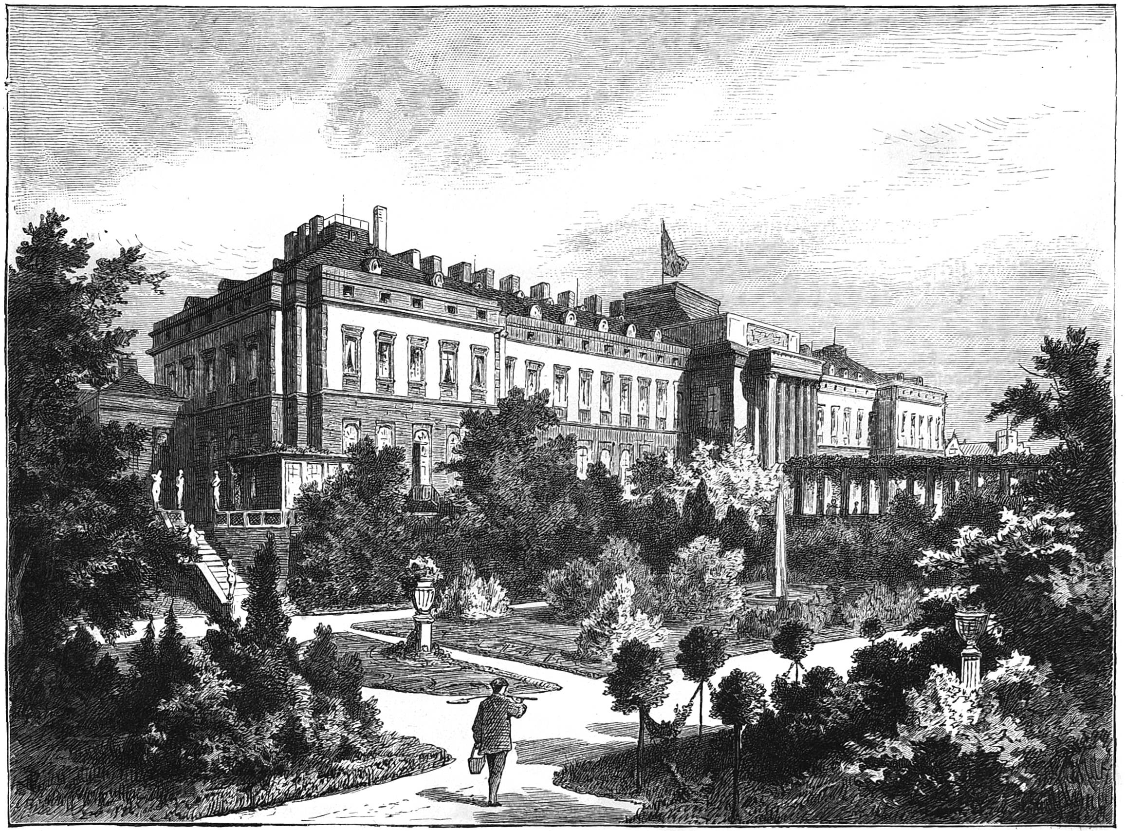 caption: "Das Coblenzer Schloß von der Rheinseite aus. Nach der Natur gezeichnet von A. Zick."